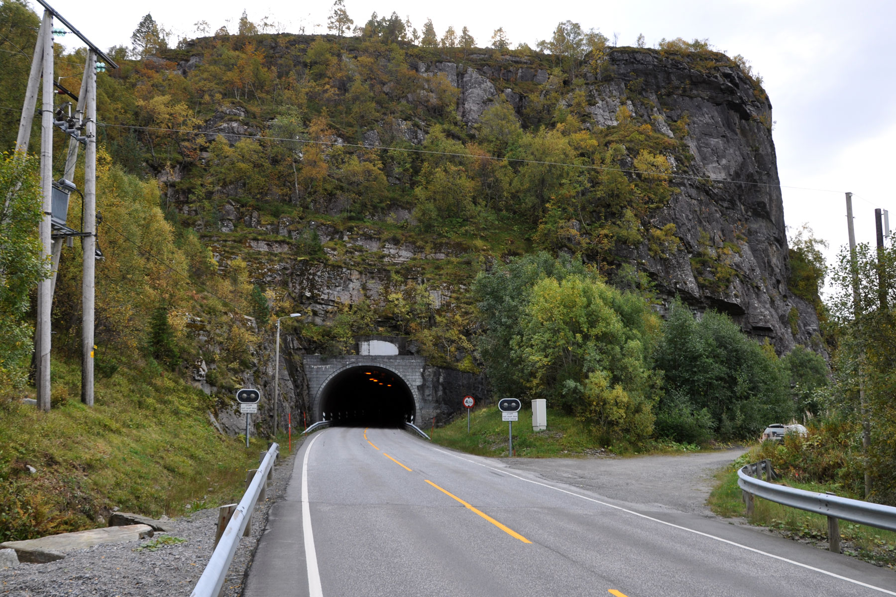 The northern entrace for the youngest and northern Remmefjell tunnel.